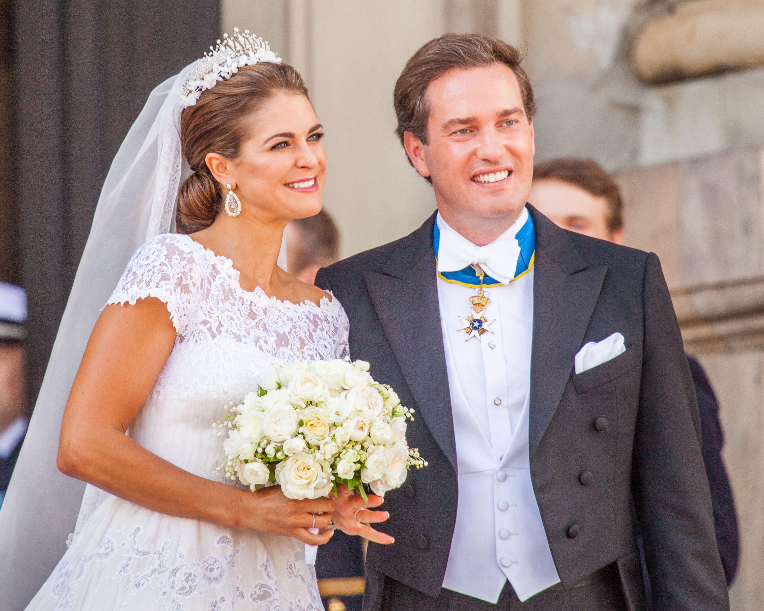 Princess Madeleine of Sweden and Christopher O´Neill wedding June 2013